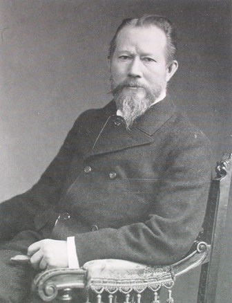 Adelsteen Normann